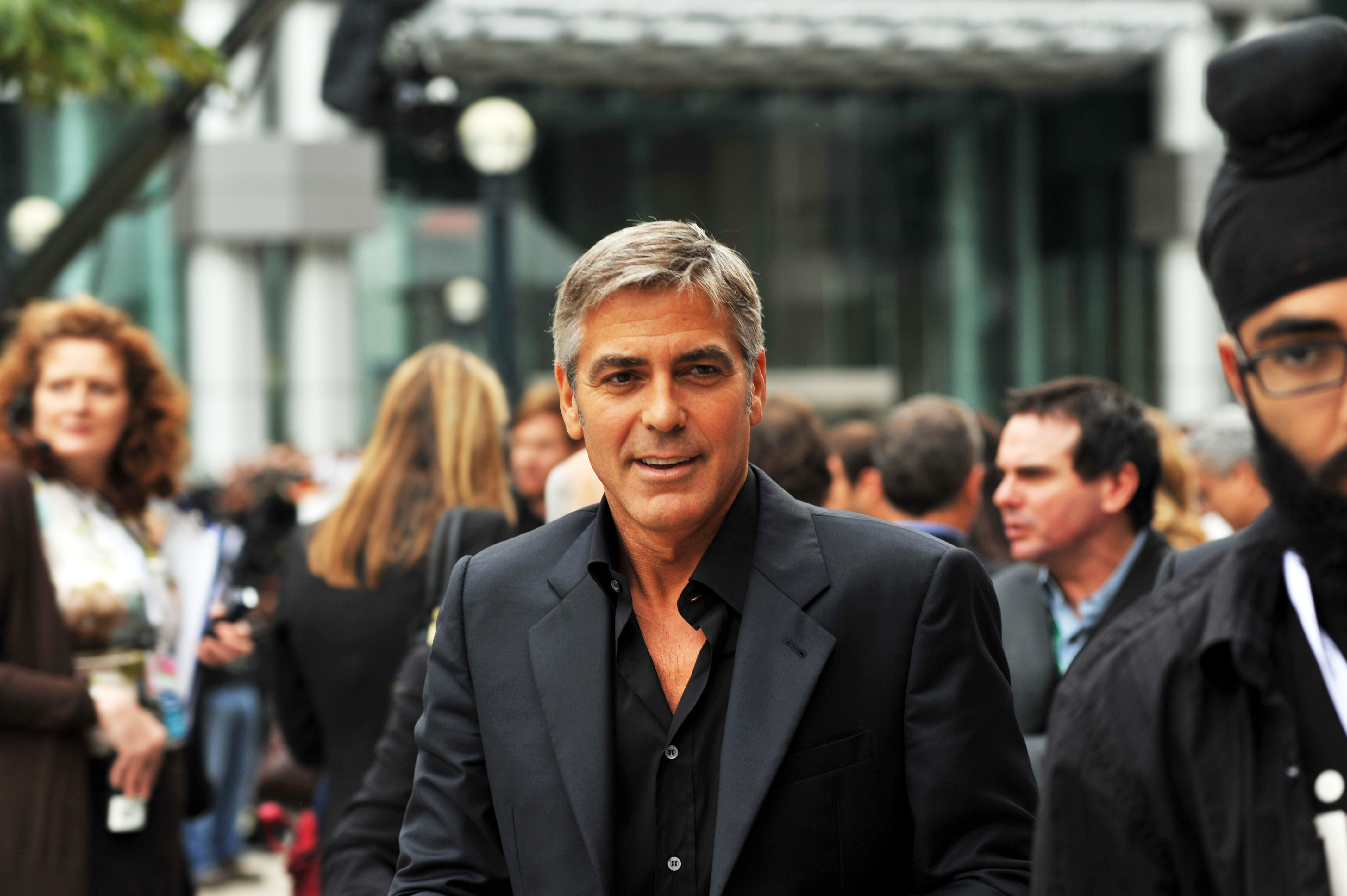 George Clooney at the "Men Who Stare At Goats" screening at the 2009 Toronto International Film Festival